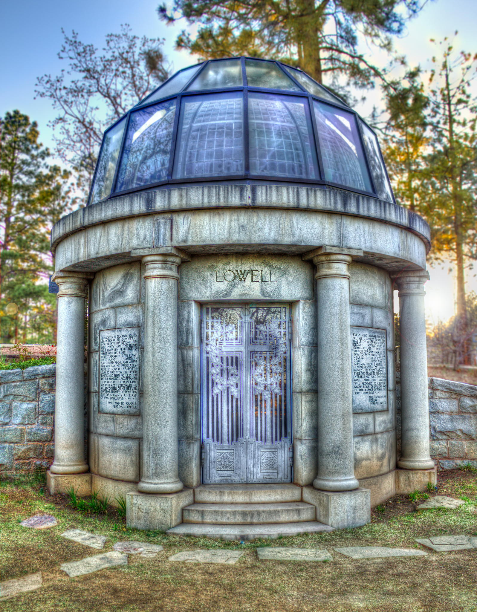 Percival Lowell - Mausoleum 2013 HDR processed for creative impact. The original raws were taken with a Canon Rebel T1i and were very flat due to the sunset backlighting the scene which was beautiful in person so I wanted to push this one; especially to make the grain in the stones really evident.